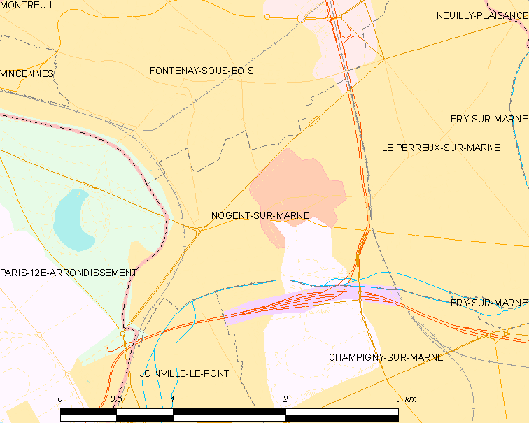 Map of French municipality Nogent-sur-Marne